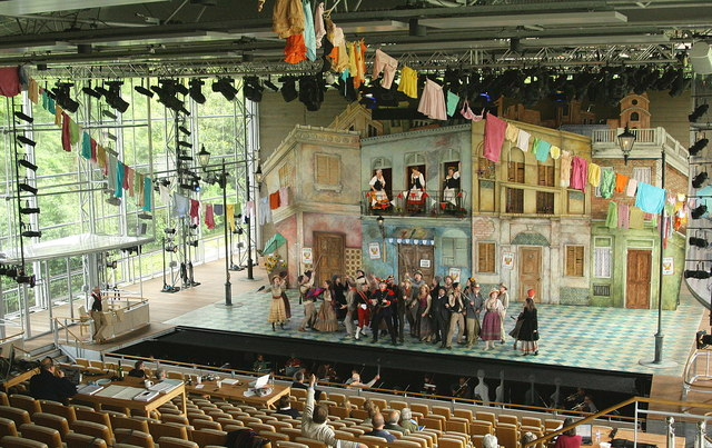 Garsington Opera in the Wormsley Estate